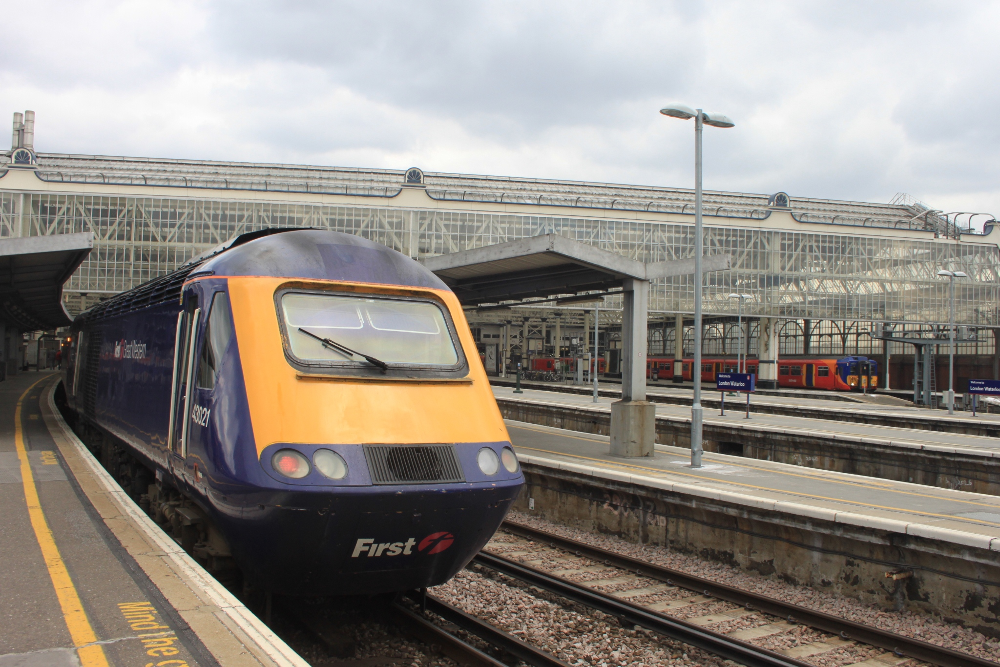 First Great Western high speed trains are rare visitors to London Waterloo. 43021 is seen there having arrived from Penzance on Easter Sunday 2013 when resignalling work at Reading prevented it reaching its normal London terminus at Paddington.